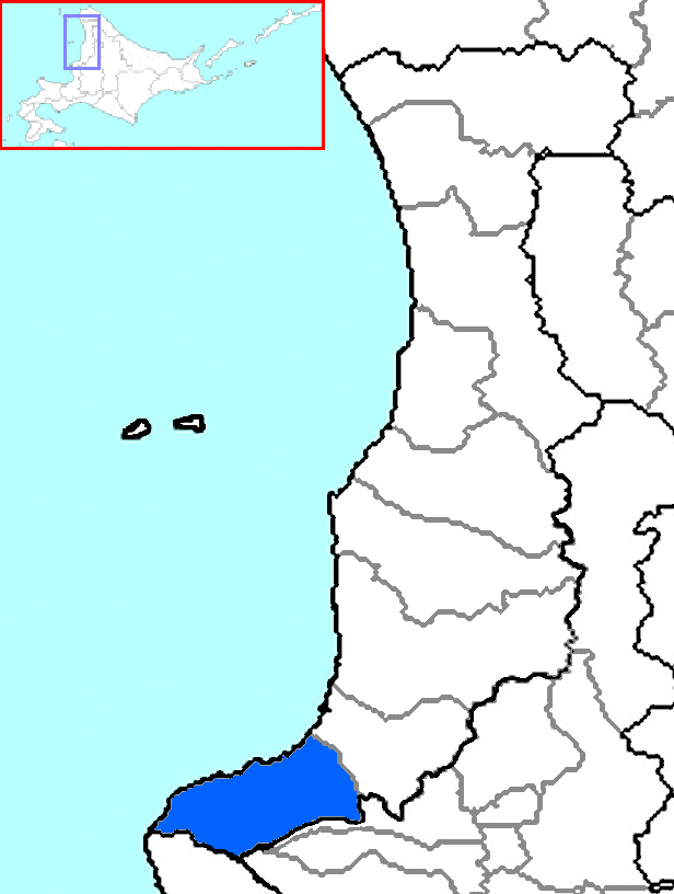 The location of Mashike in Rumoi Subprefecture, Hokkaido Prefecture, Japan.